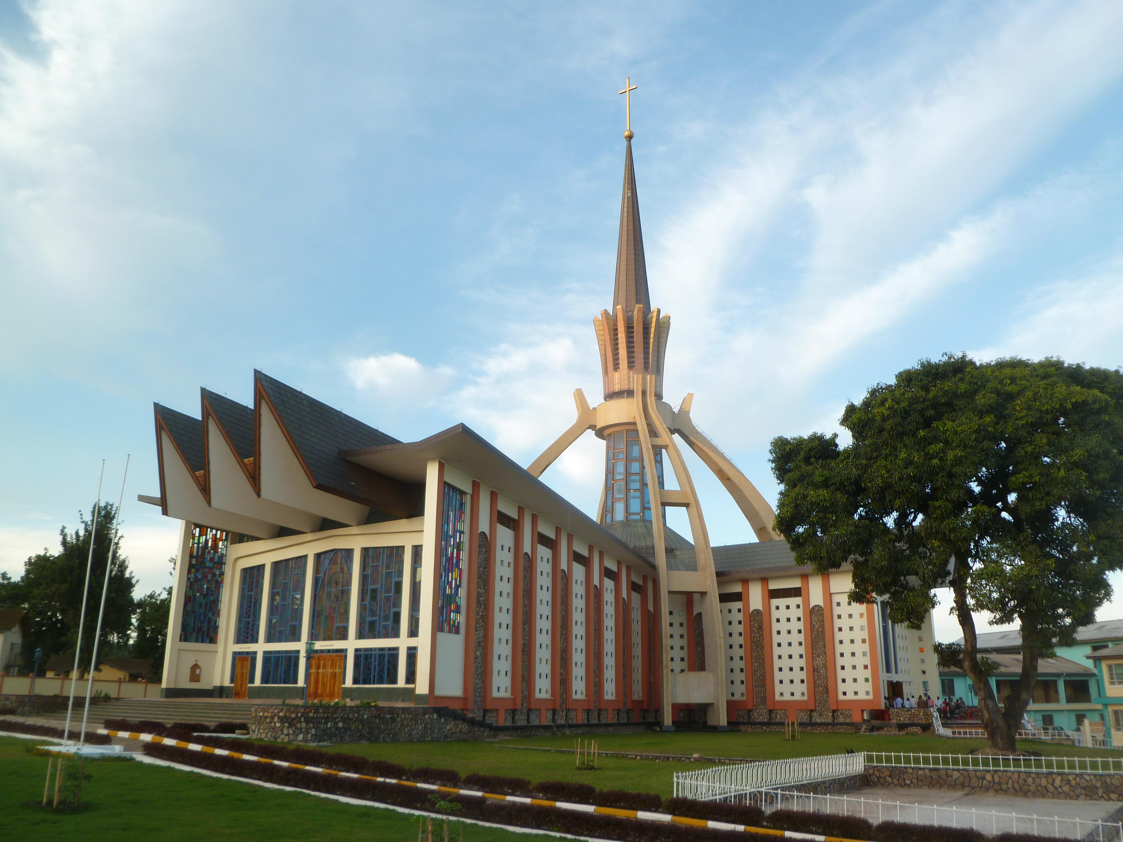 Picture of the Mater Misericordiae Church in Bukoba town.